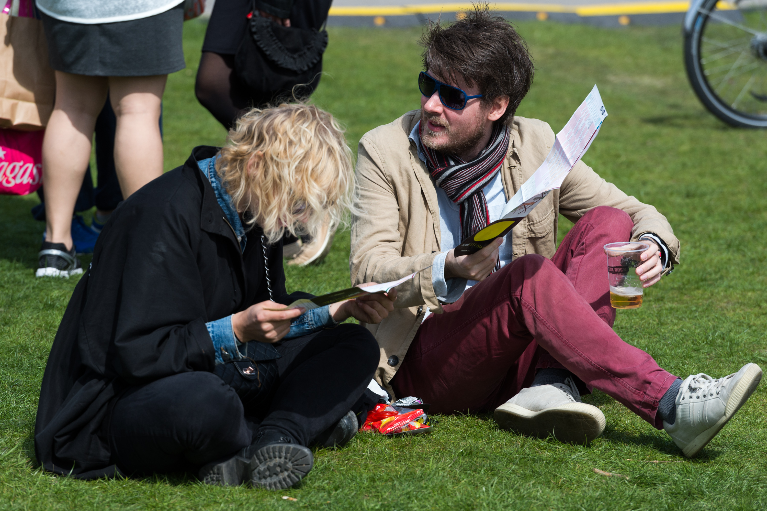 Spot Festival participants 2014